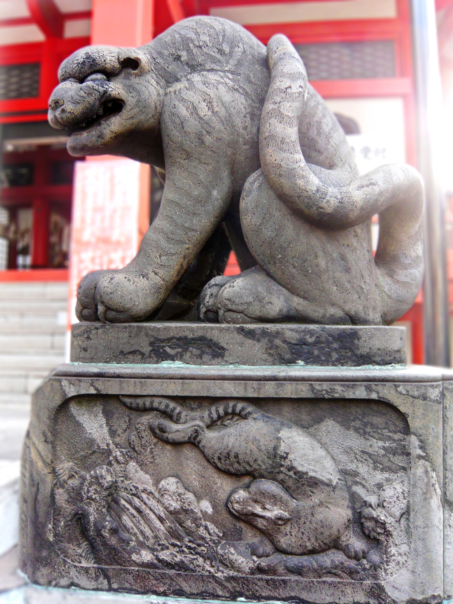 Koma-tora, a pair of statues of tigers, as gate guardians, - at Zenkokuji temple, in Kagurazaka, Shinjuku,Tokyo,Japan.